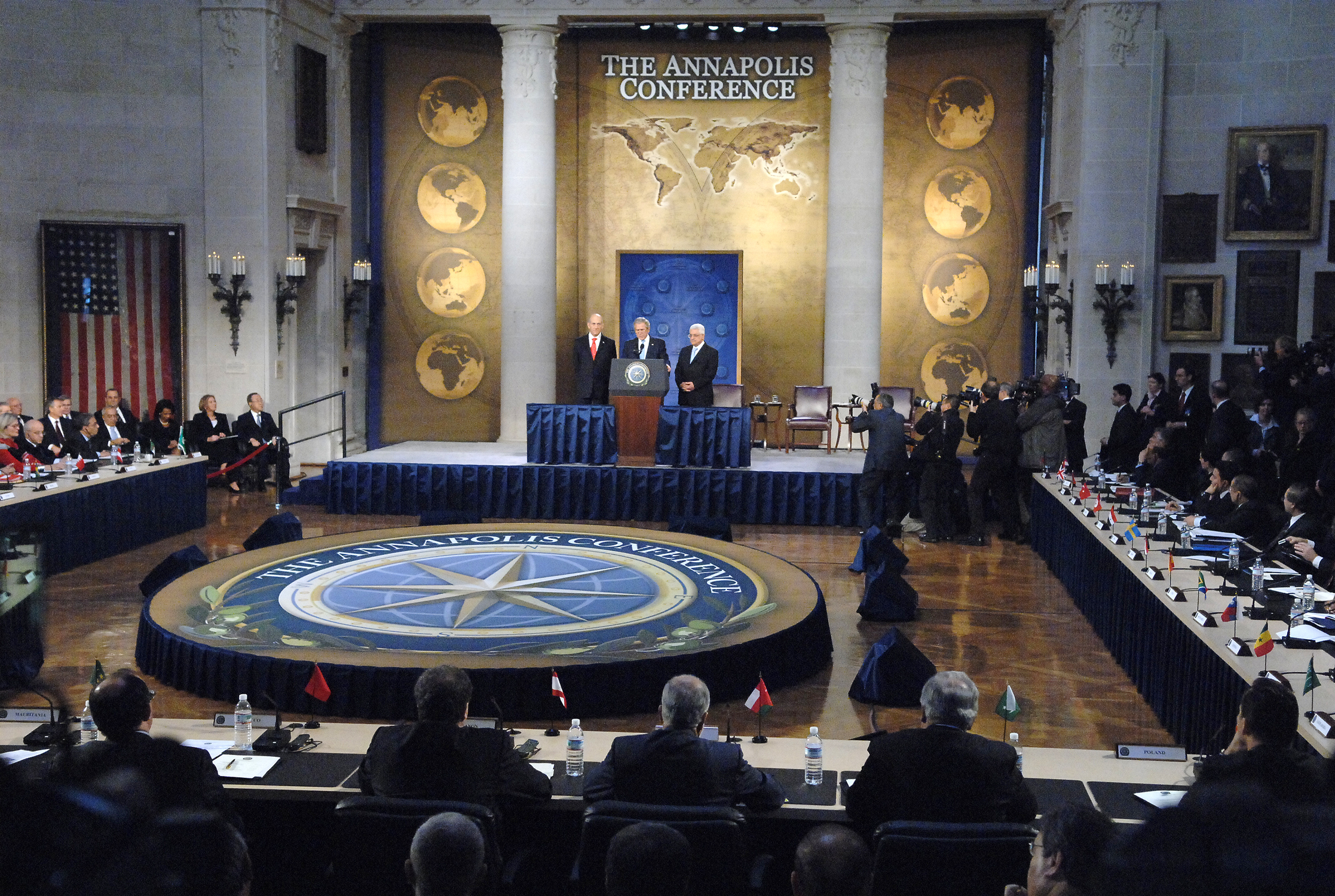 ANNAPOLIS, Md. (Nov. 27, 2008) Israeli Prime Minister Ehud Omert, left President George W. Bush, and Palestinian President Mahmoud Abbas address representatives from more than 50 counties and international organizations at the Annapolis Conference in the Naval Academy's Memorial Hall. Attendees included "the Quartet," made up of the United Nations, European Union, Russia and the United States; members of the Arab League Follow-on Committee, the Group of Eight major industrialized nations, permanent members of the U.N. Security Council, and other key international officials. U.S. Navy photo by Gin Kai (Released)